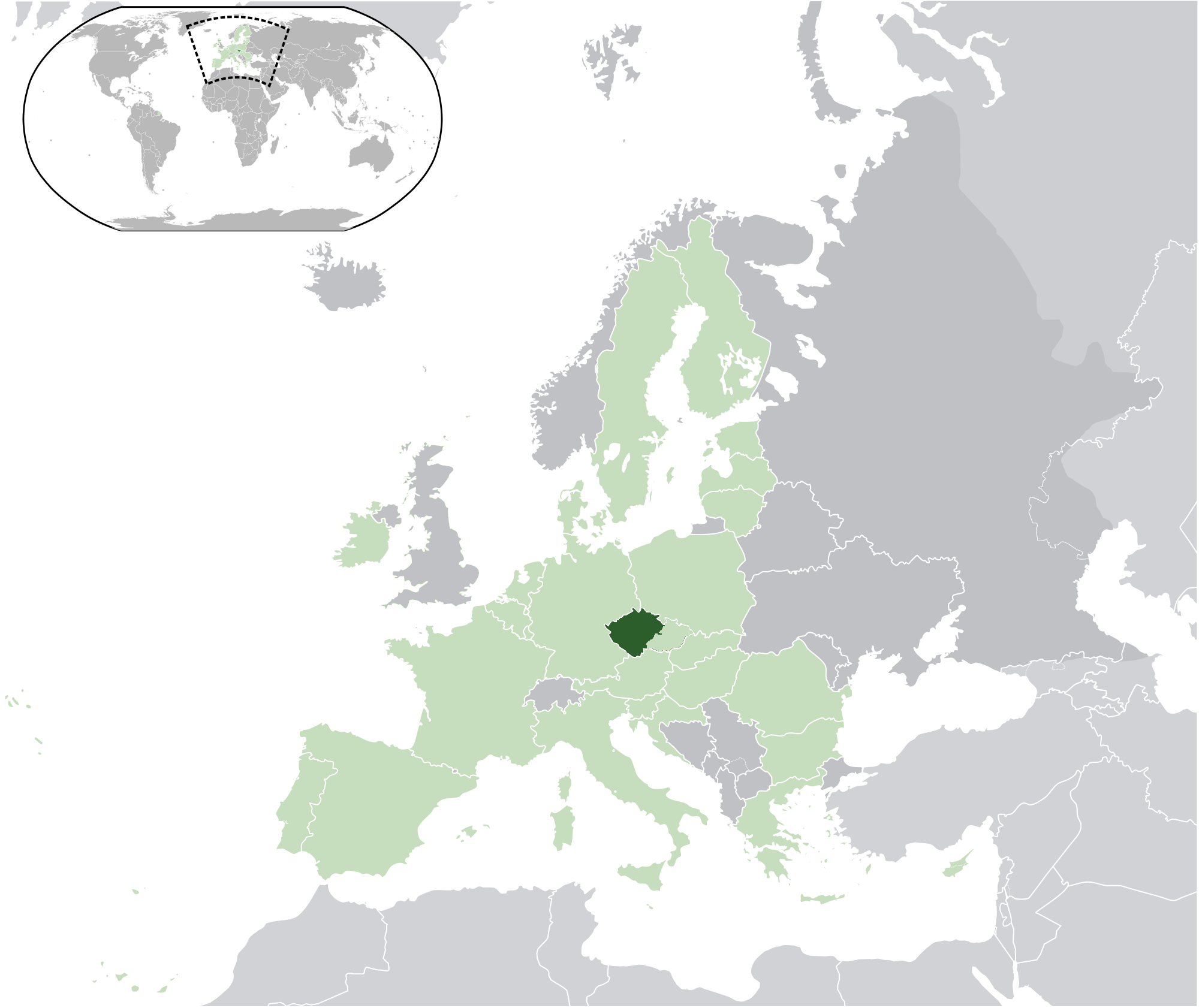 Map of Bohemia superimposed on a map of the European Union